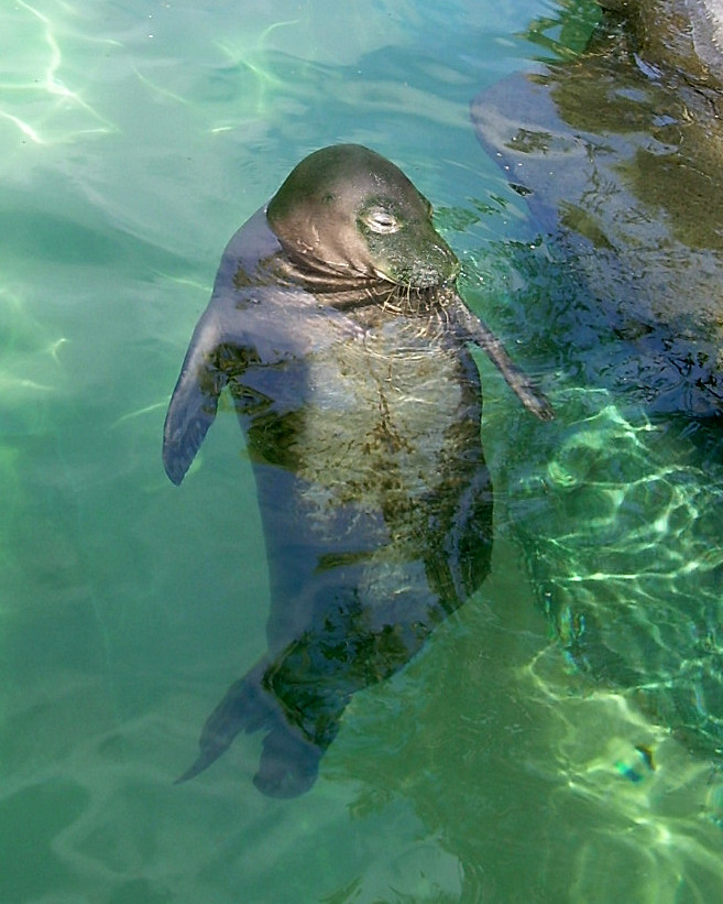 Hawaiian monk seal from the Waikiki Aquarium